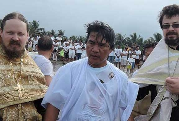 Yesterday the Aglipayan parish of St John the Baptist at Ladol, pastored by Bishop Esteban Valmera, was baptized. After a long period of catechism, their whole parish enters the Orthodox Church, with their bishop being baptized alongside everyone else. God willing, he will soon be ordained to the Orthodox Priesthood. Fr Kirill Skraboul and Fr George Maximov served the Mysteries of Baptism and the Eucharist.